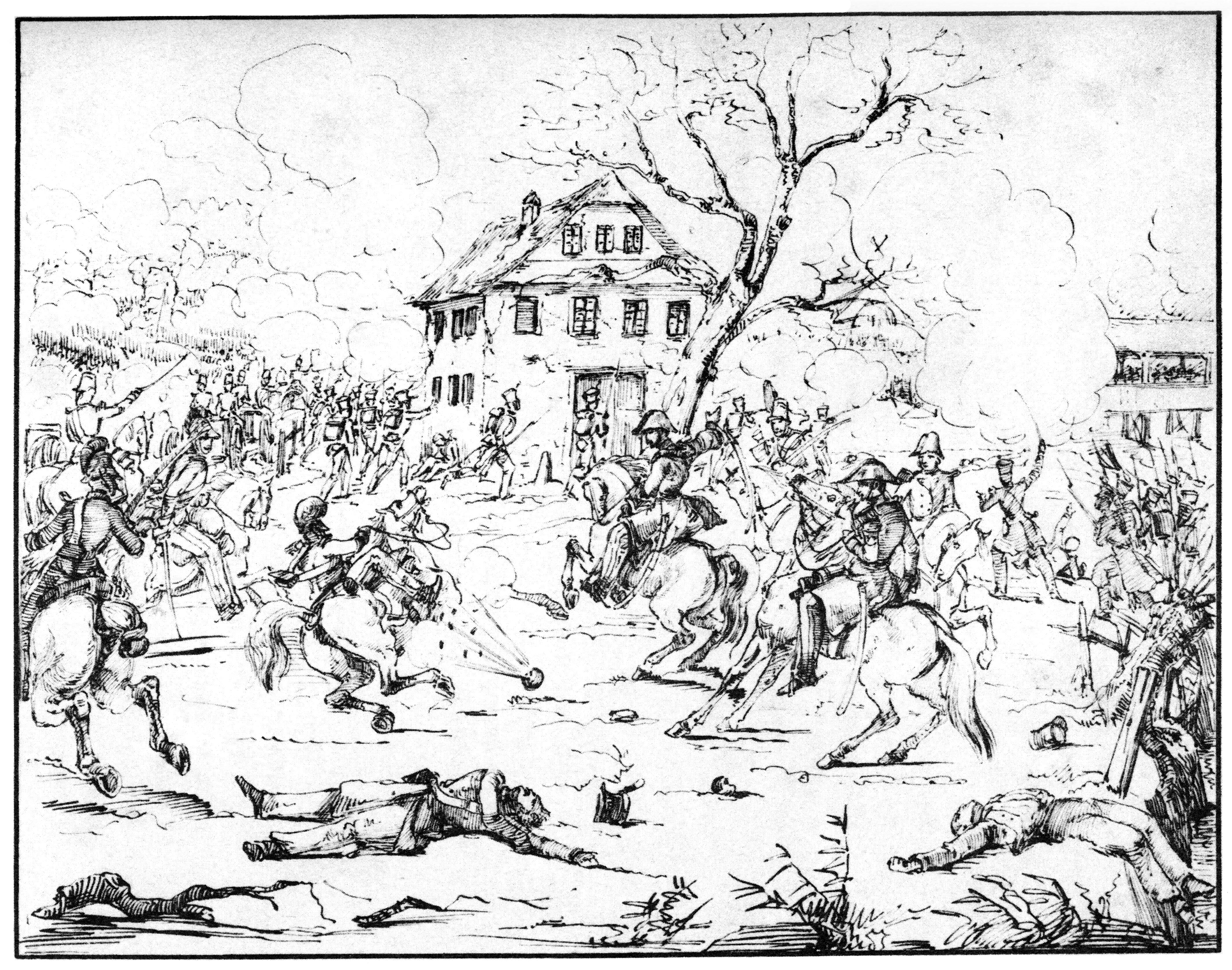 Sonderbund war 1847, Switzerland: Ink drawing by Lt. Charles-Alexandre Steinhäuslin, first company of the 19th batallion of the second brigade of the II. federal division.